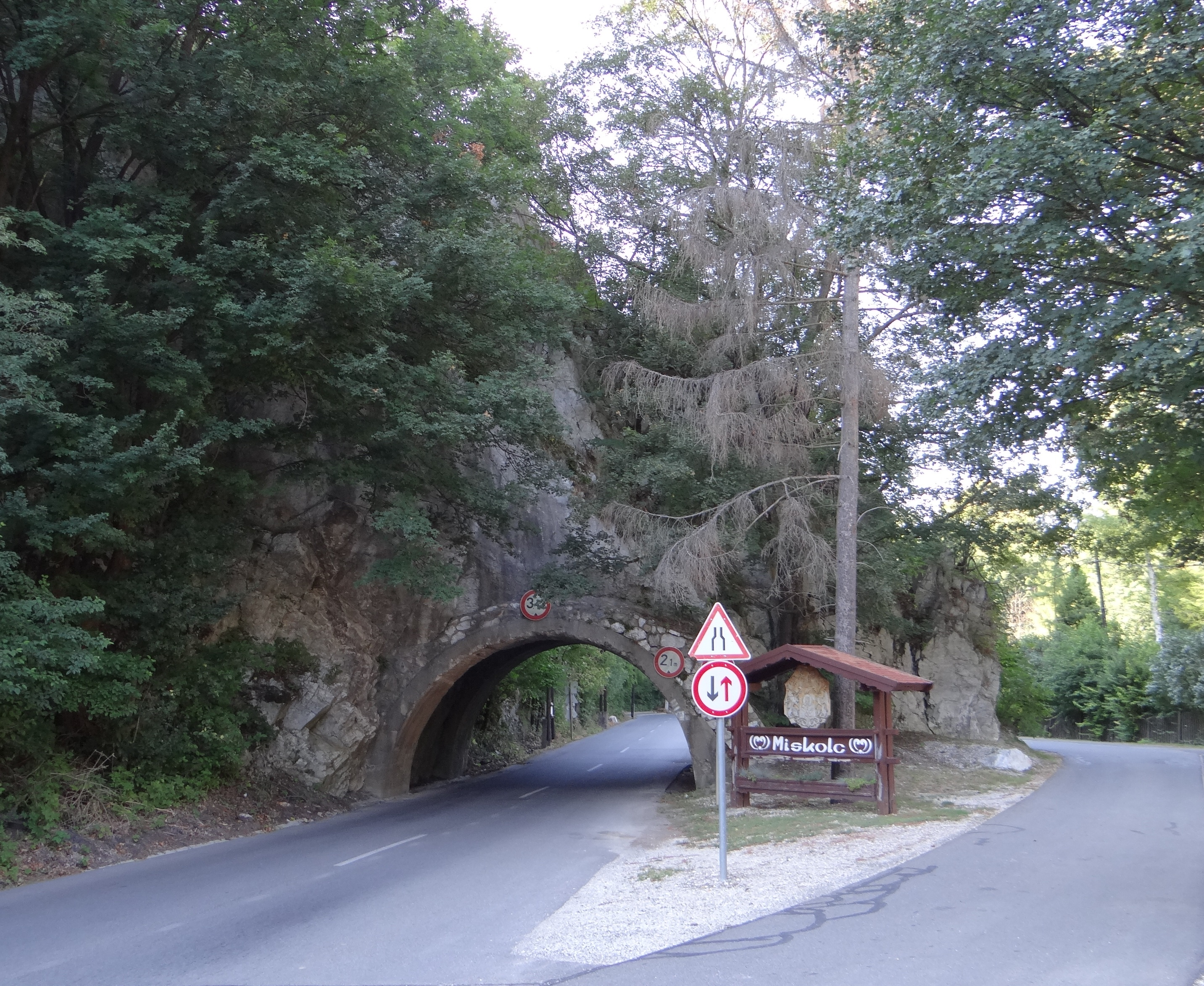 The "upper" tunnel in Lillafüred, Hungary